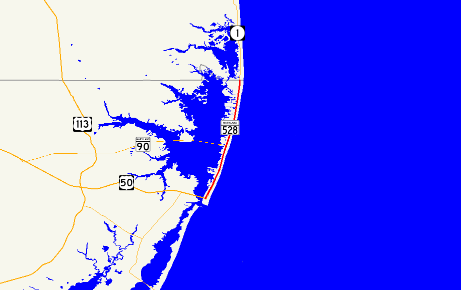 Map of Maryland Route 528